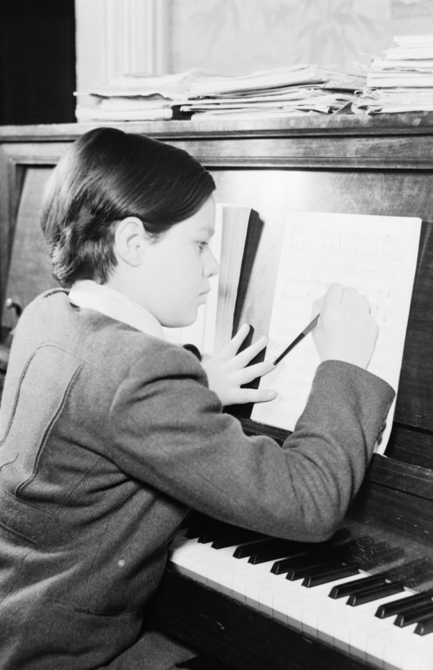 Montreal pianist and composer André Mathieu is nicknamed the Canadian Mozart. We see him, at eleven years old, write musical notes on a score.